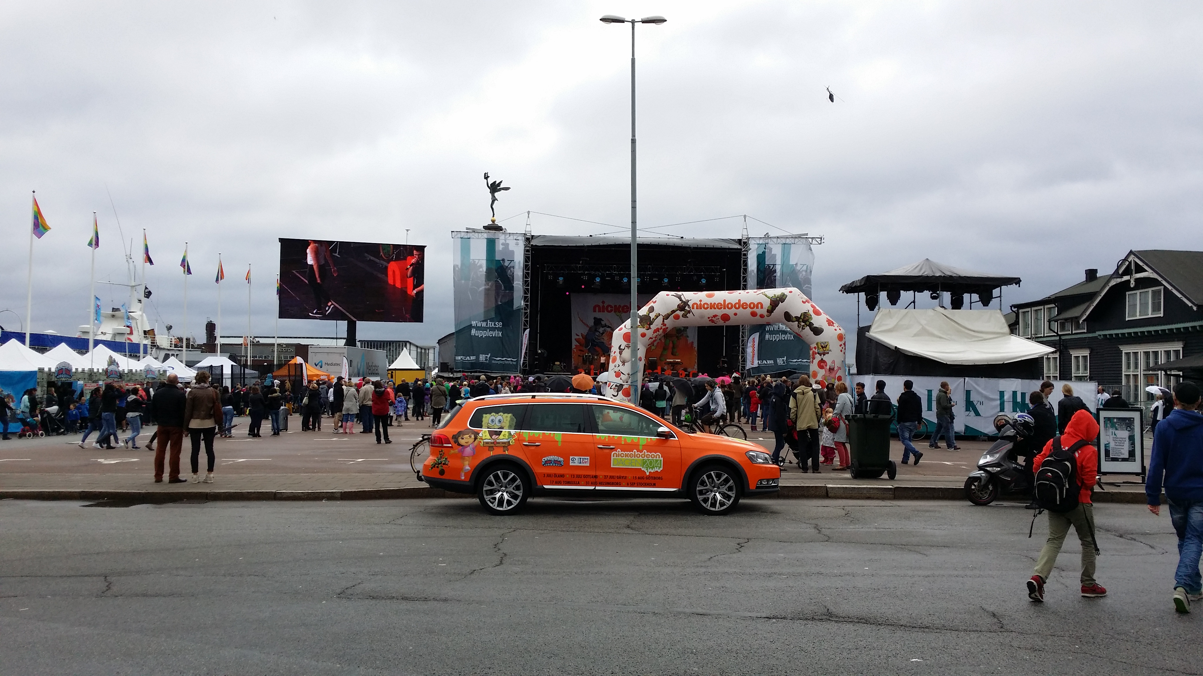 Hx 2014 in Helsingborg, Sweden. A photograph of the stage at Hamntorget.